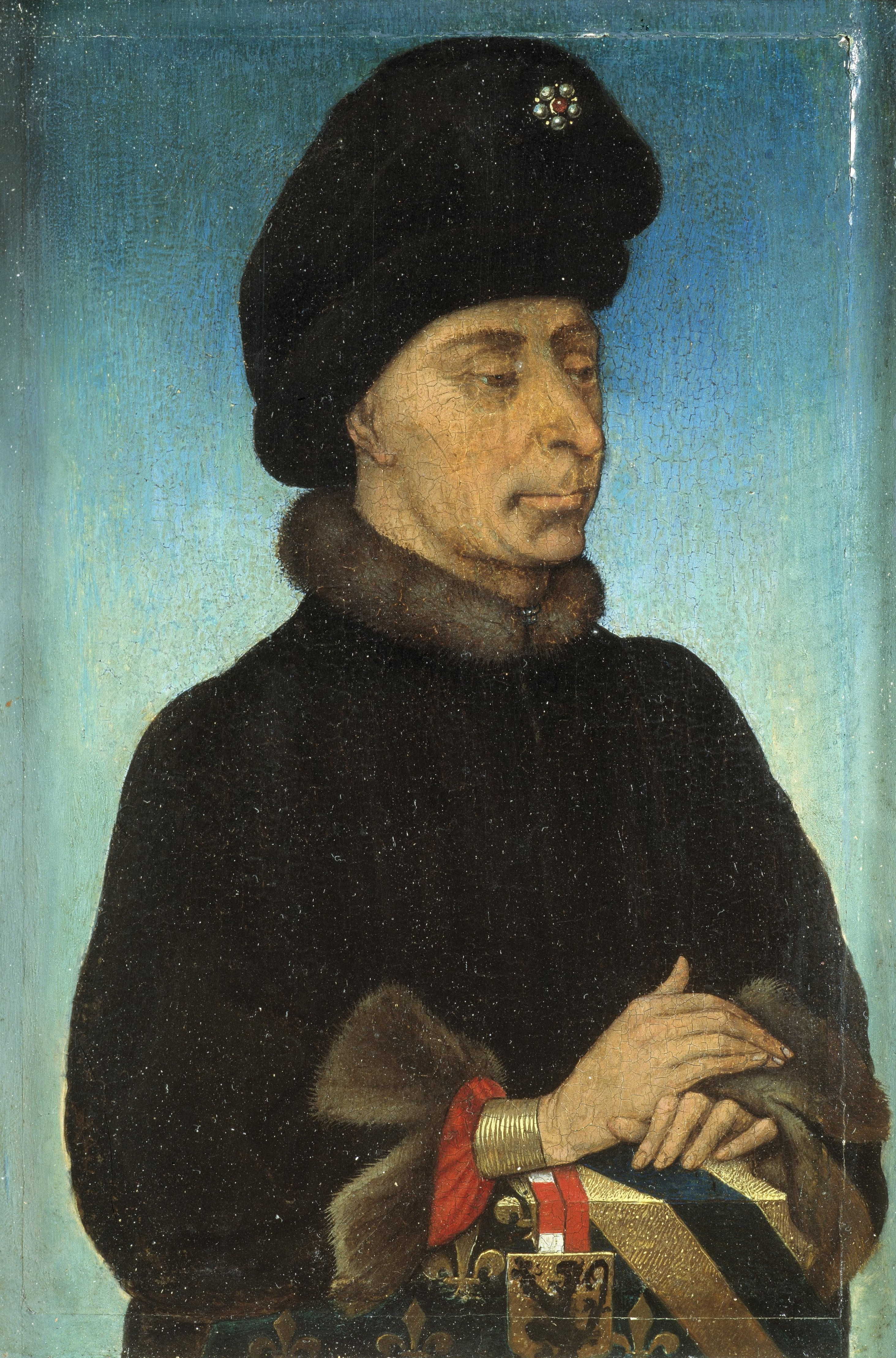 Portrait of John the Fearless (1371-1419), second Duke of Burgundy from the House of Valois. Half length, facing right. His hands are resting on a prayer desk, on which is draped a tapestry with the coats of arms of Valois, Burgundy (inherited by from his father, Philip the Bold) and the Flemish Lion (inherited from his mother, Margaret of Flanders).